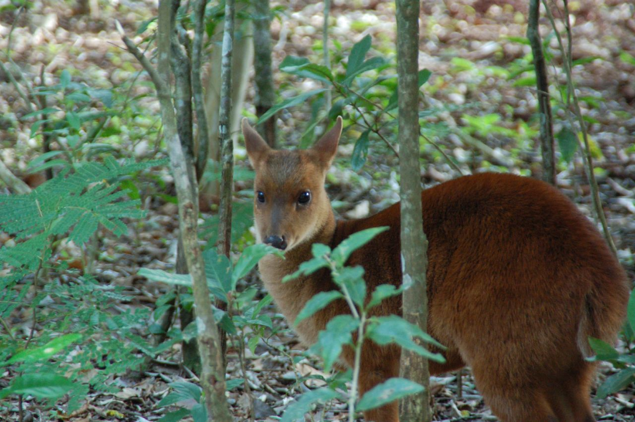 Dwarf brocket deer (Mazama nana), Itaupu Zoo.